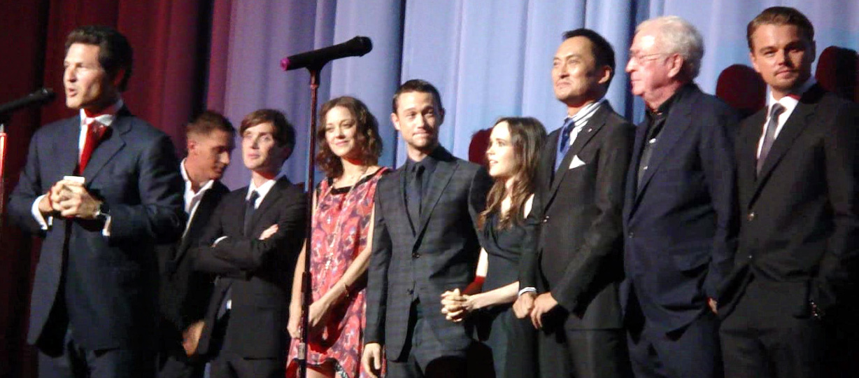 The cast of Inception at a premiere in July 2010 being introduced by Josh Berger. From left to right is Tom Hardy, Cillian Murphy, Marion Cotillard, Joseph Gordon-Levitt, Ellen Page, Ken Watanabe, Michael Caine, and Leonardo DiCaprio.